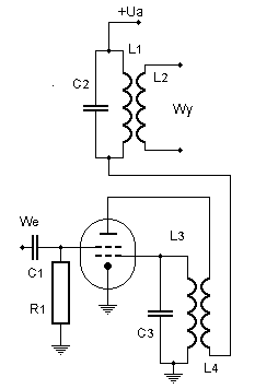 Dual control grid tetrode frequency changer.